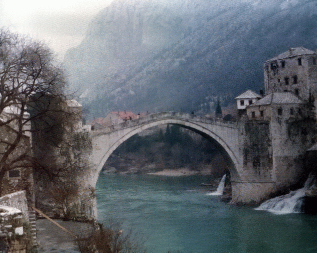 Photograph of the original Stari Most (Mostar, Yugoslavia) taken in the 1970s by Josephine W. Baker before the bridge was destroyed. Mrs. Baker has released the photo to the public domain for historical use. MCalamari 16:26, 13 July 2006 (UTC)